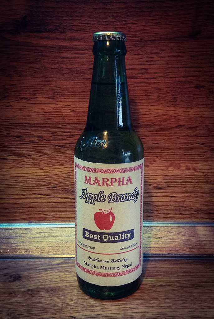 Bottle of Marpha Brandy, made in Nepal